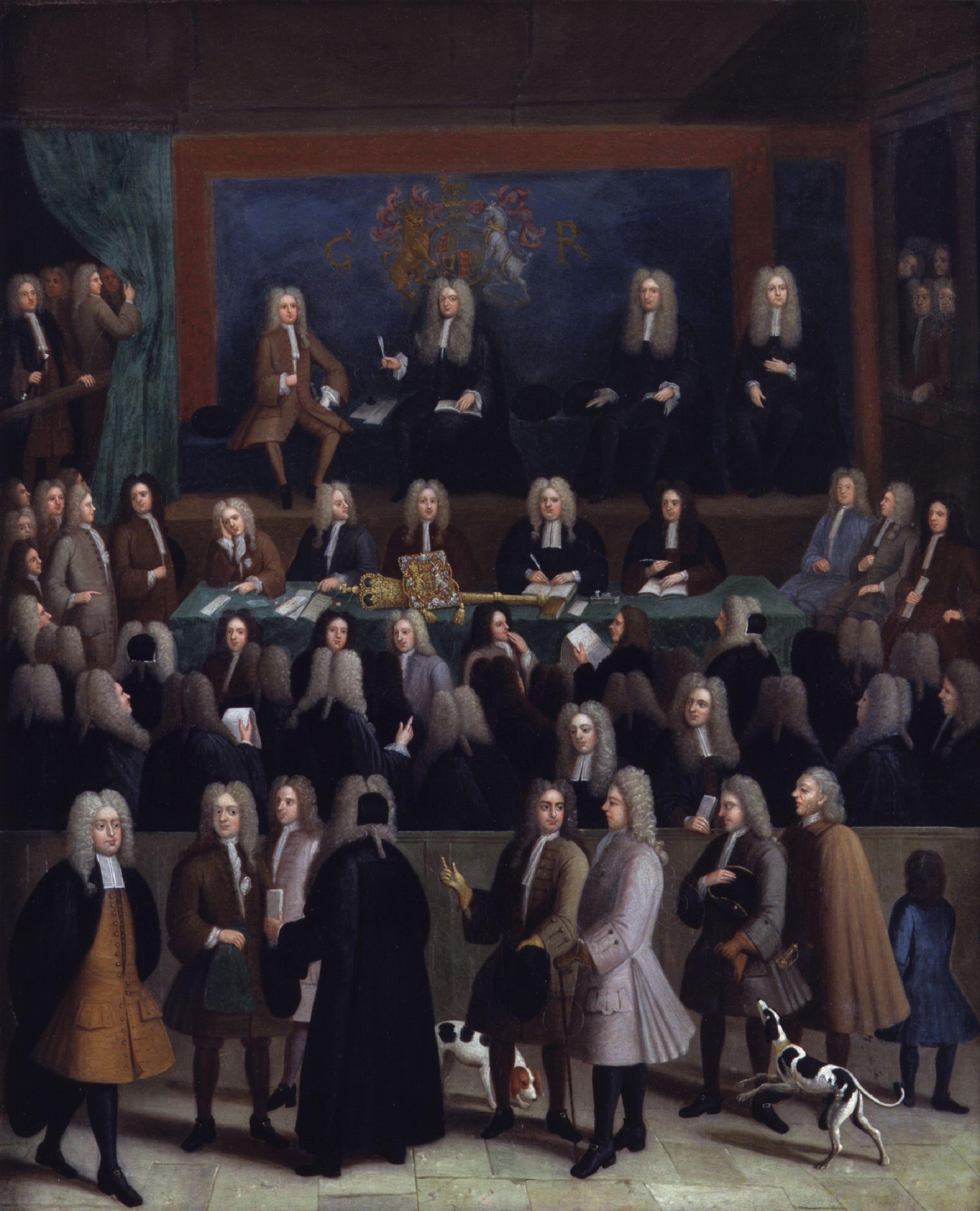 All images in this batch have been confirmed as author died before 1939 according to the official death date listed by the NPG.